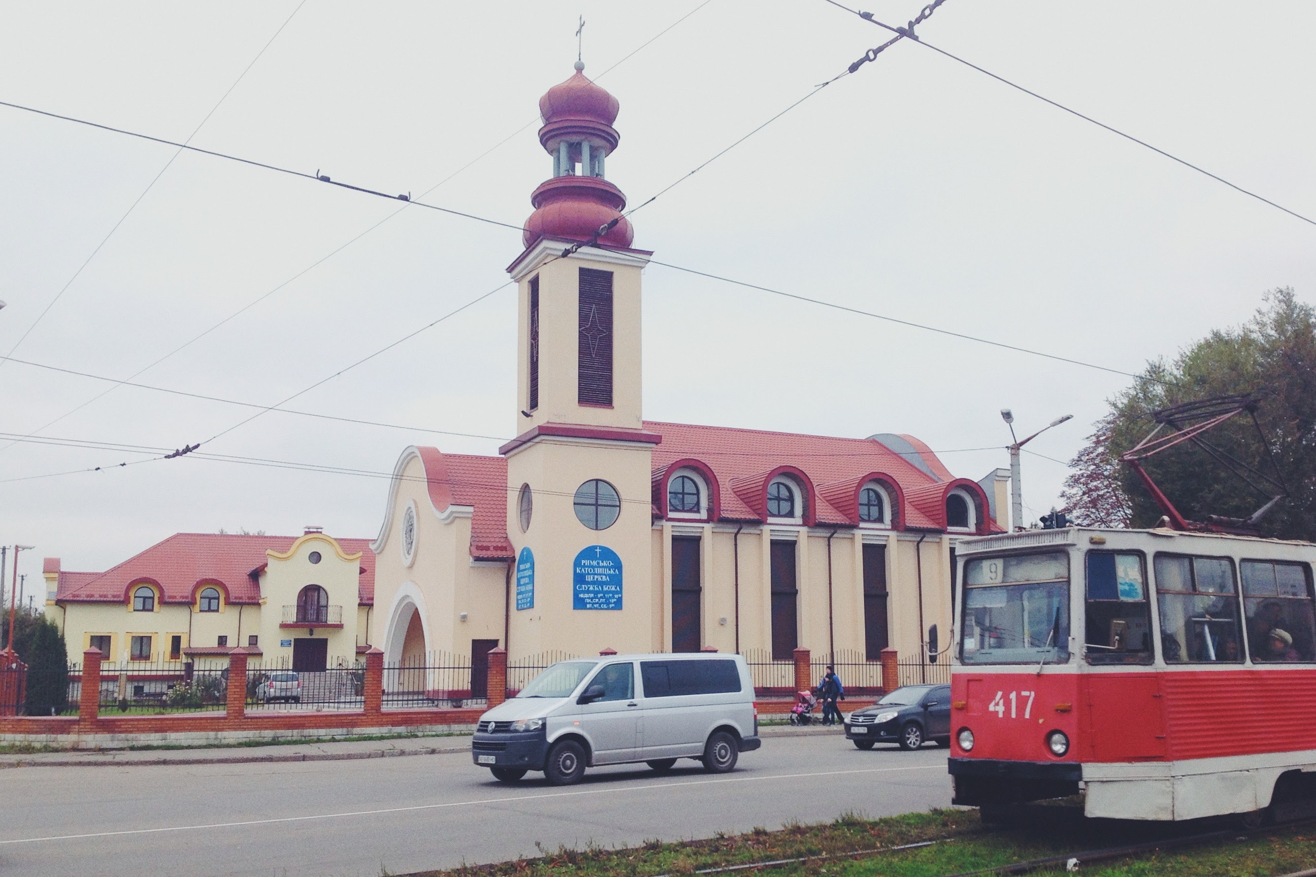 Church of the Assumption of the Blessed Virgin Mary (Kryvyi Rih)